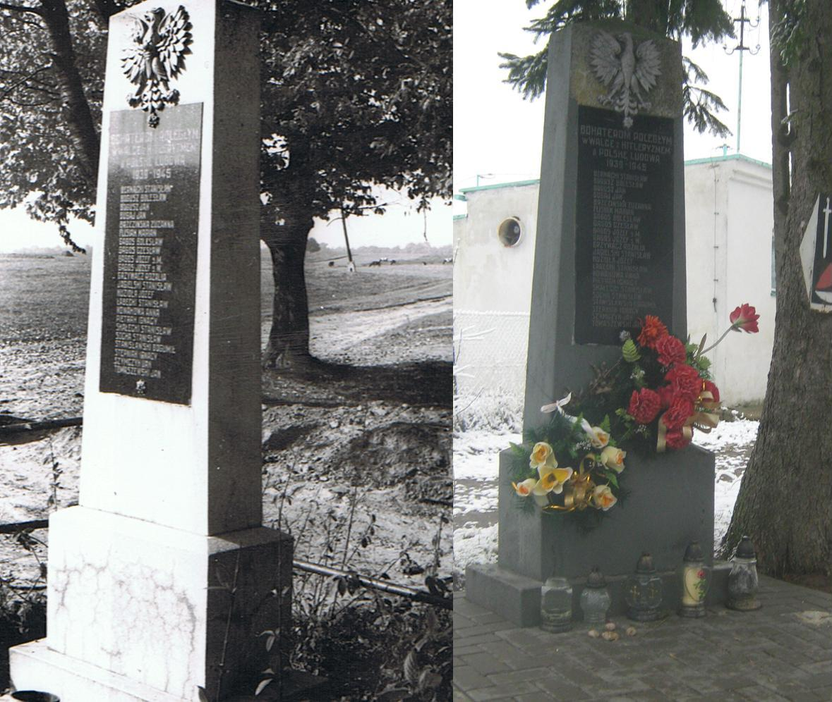 World War II memorial in ługów